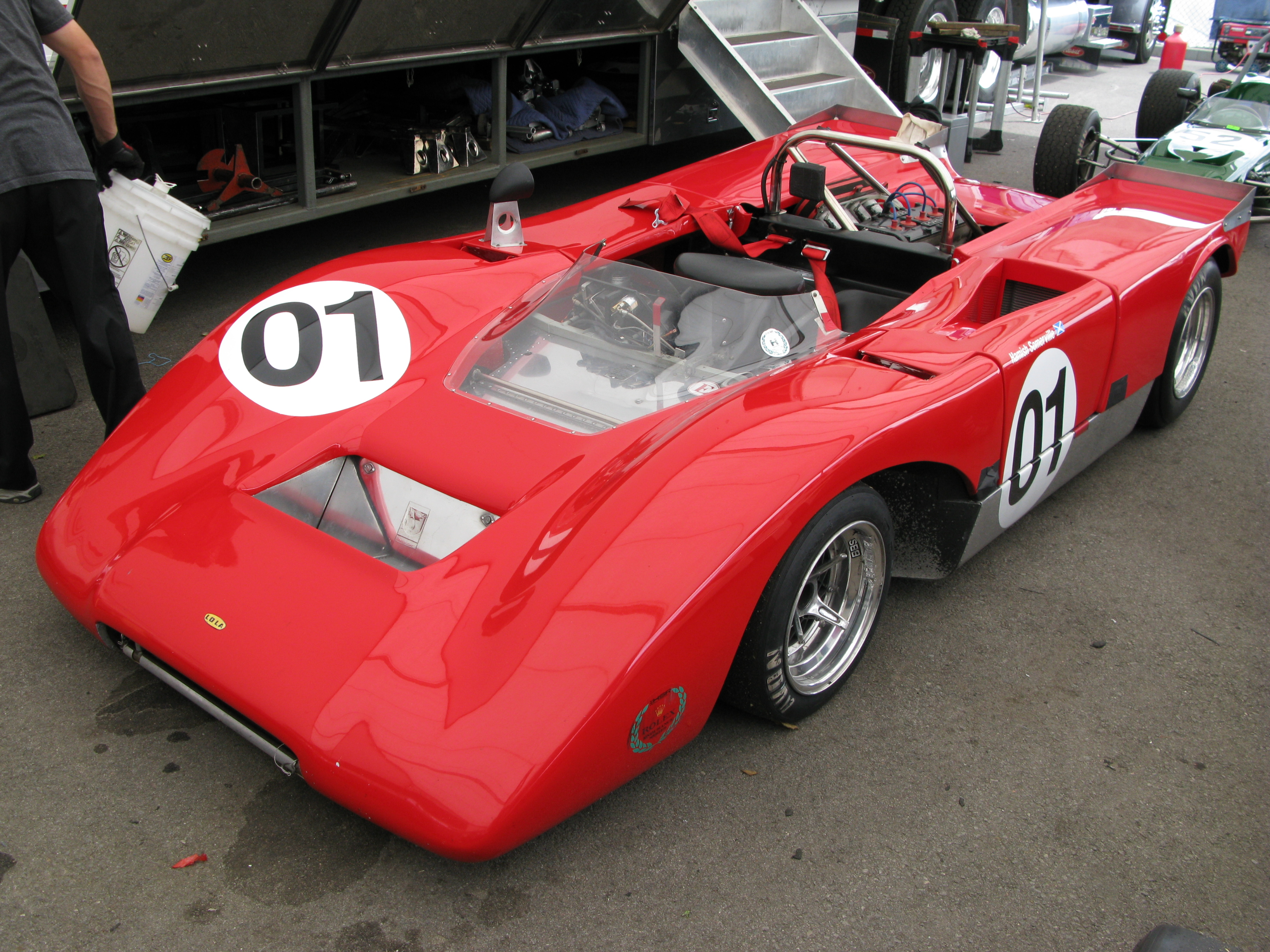 A Lola T212 sports racing car from 1970, pictured during the Sommet des Légends race meeing, Circuit Mont-Tremblant, Quebec, Canada. July 2009.